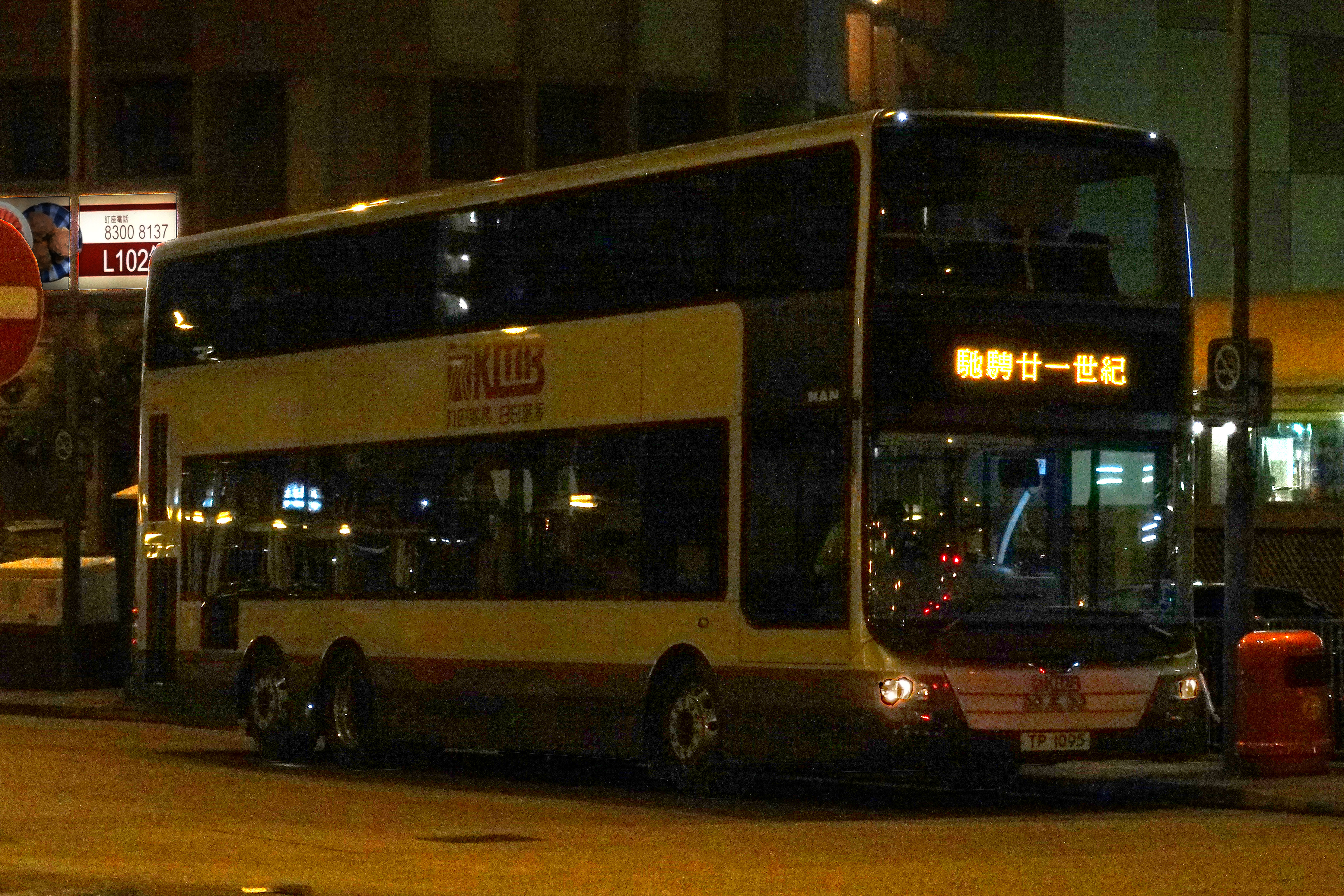 KMB’s first MAN A95